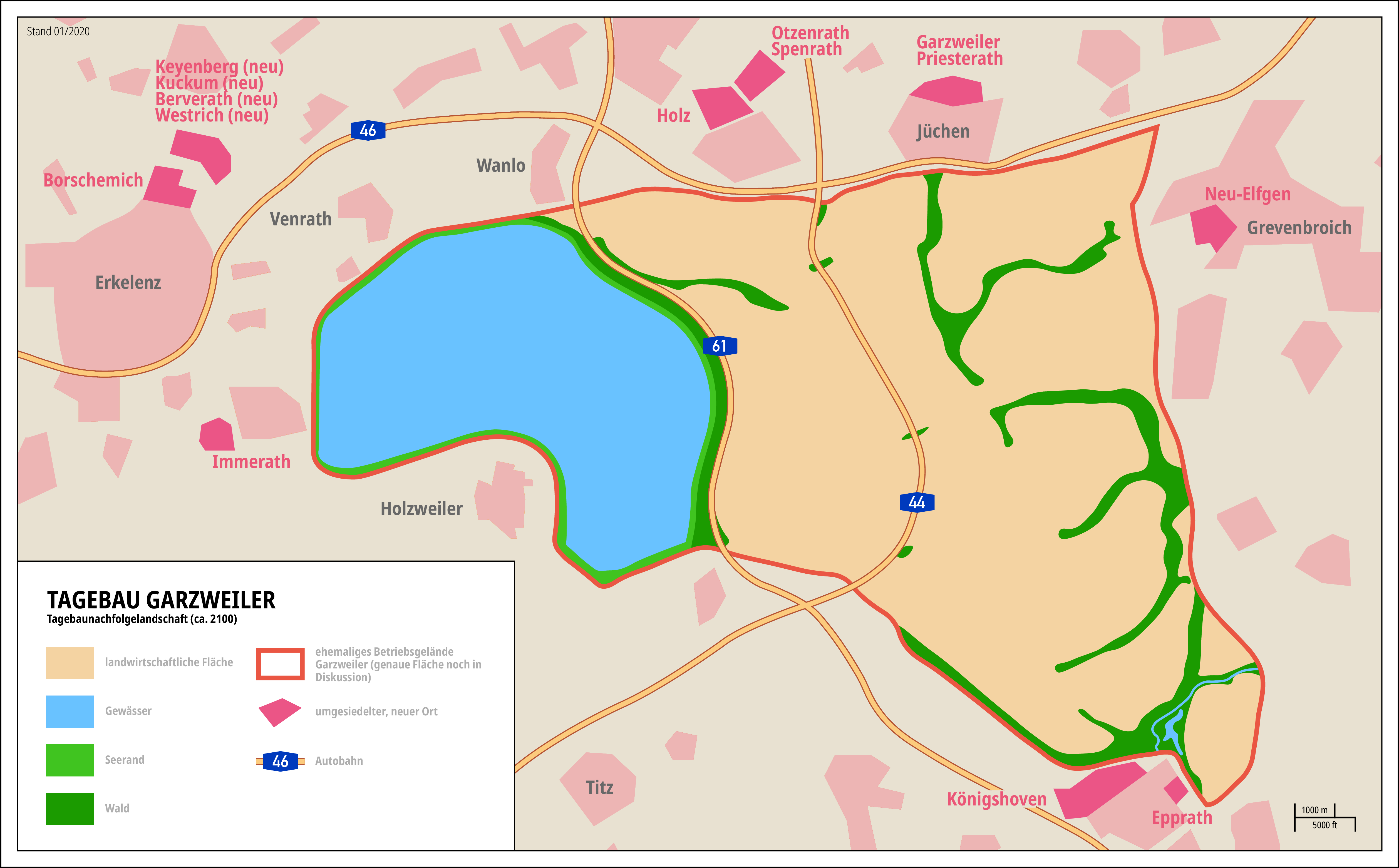 Garzweiler open-pit lignite mine in Germany after reclamation. Preview of the year 2100, according to current plans.